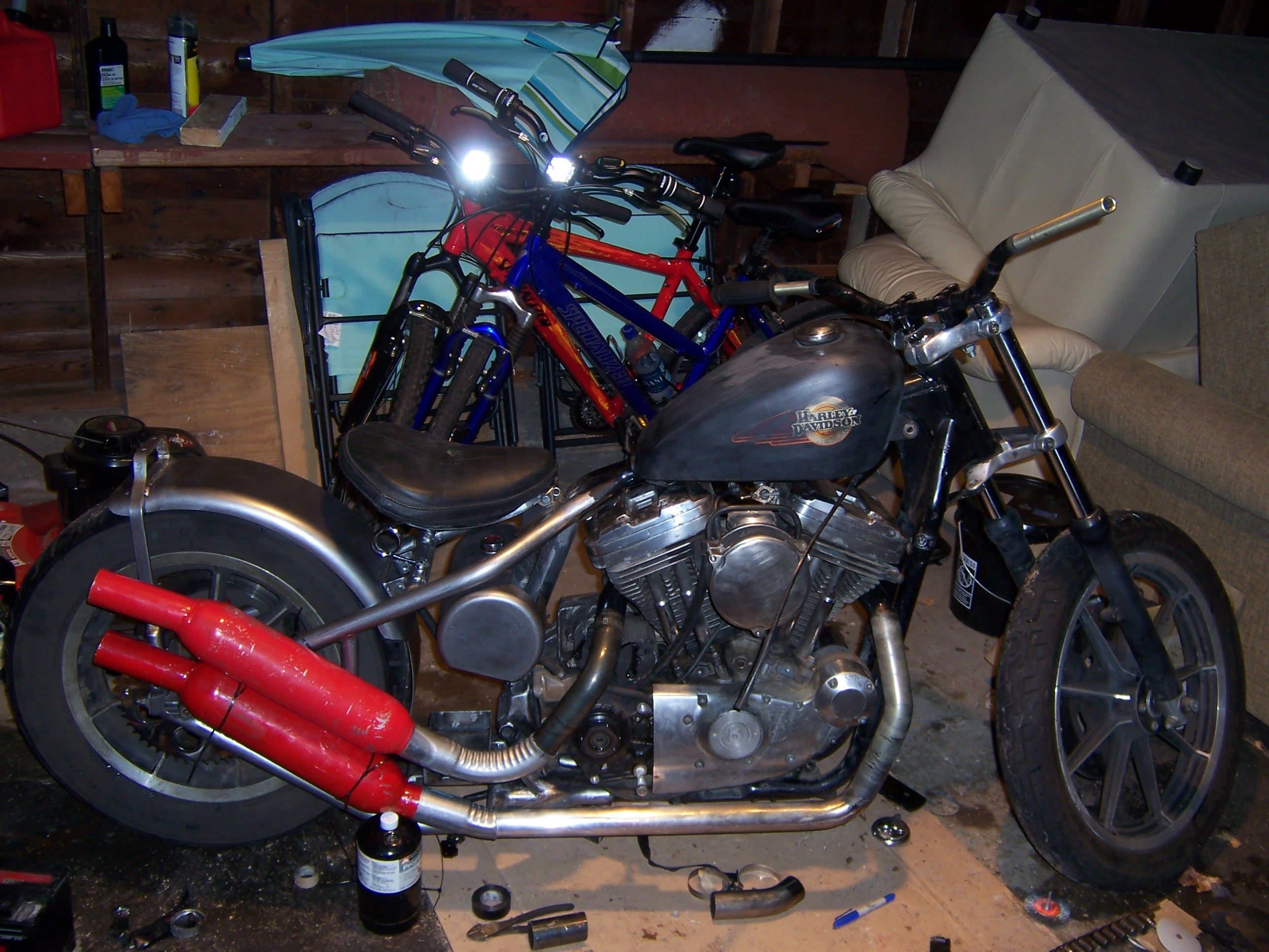 Benjamin Dickinson. This is a picture of my bobber that I am building in my garage. This is my bike and picture.